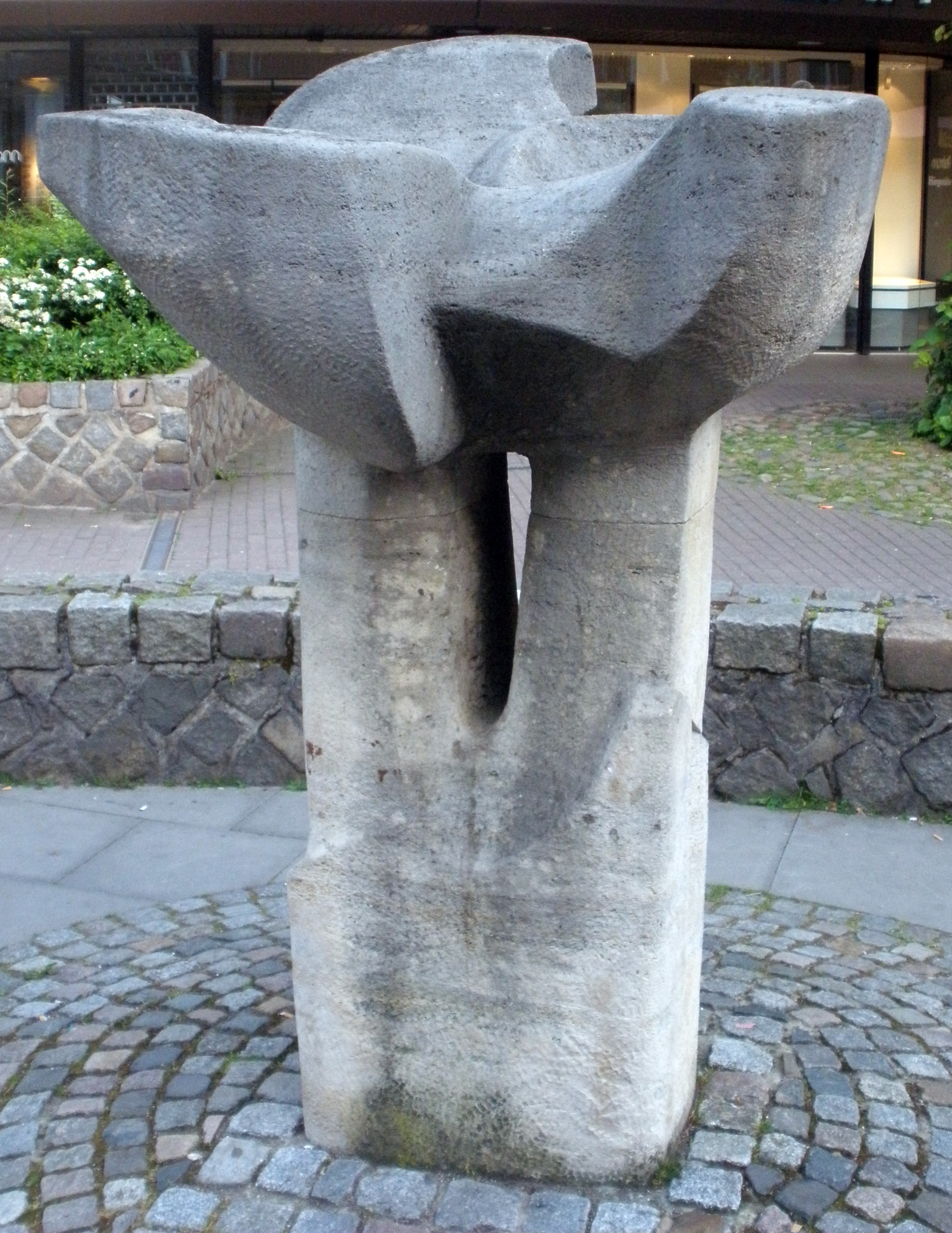 White Rose memorial Hamburg